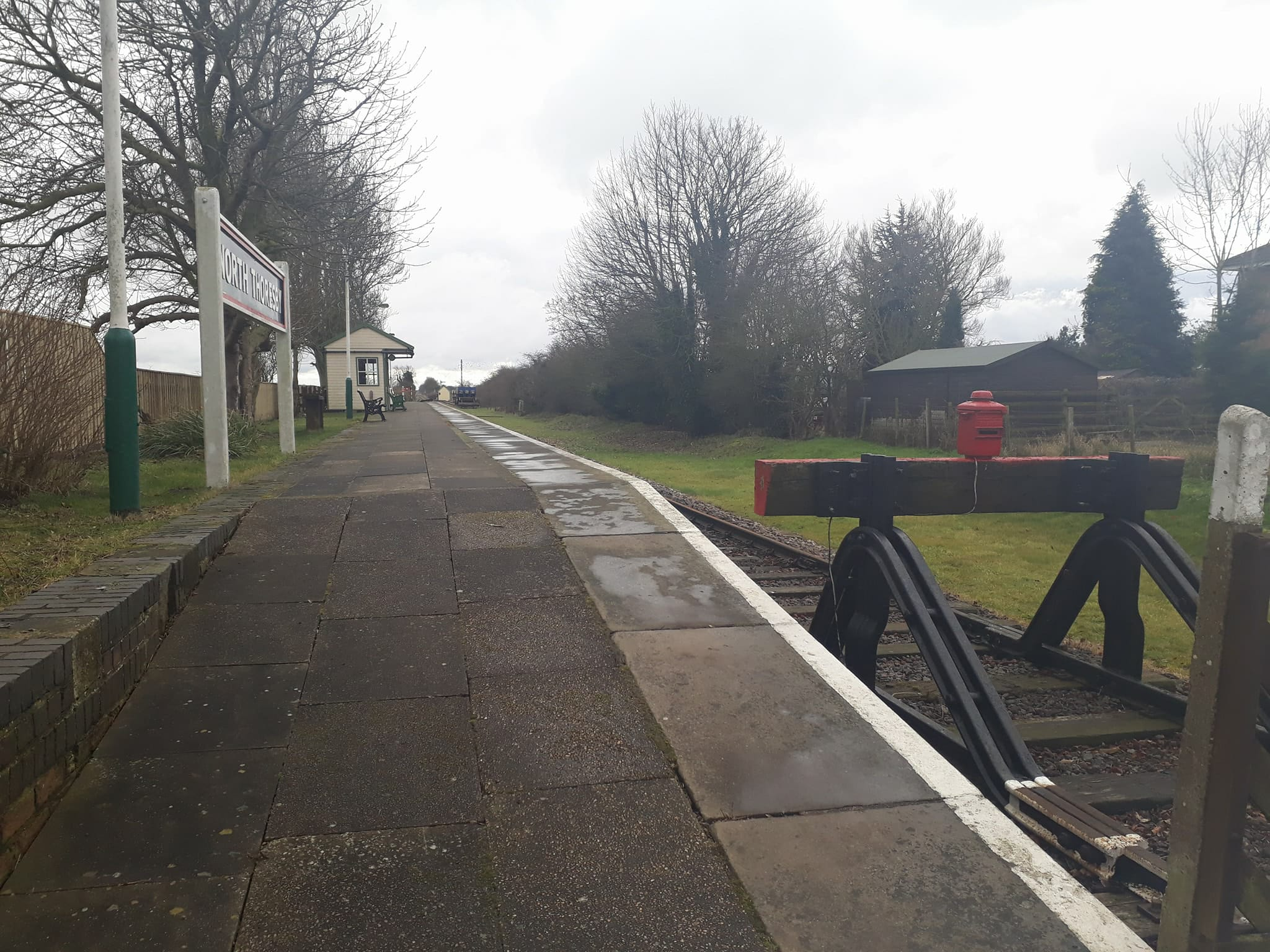 My own.